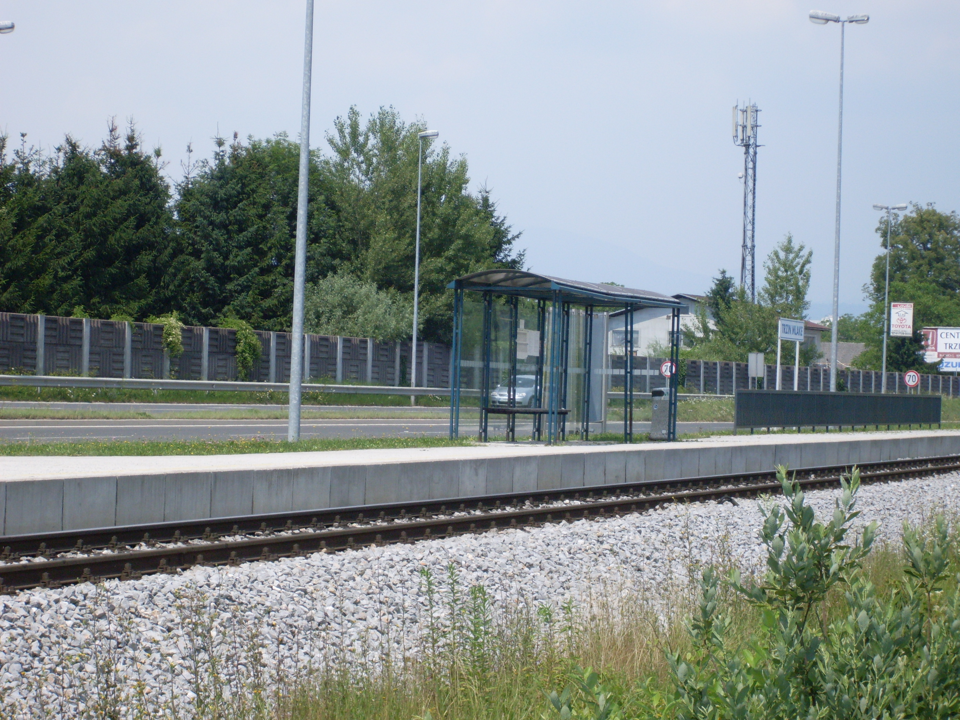 Railway halt Trzin Mlake, located in southern part of Trzin, Slovenia